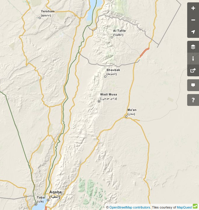 A map showing Mount Seir, strething from the south of the Dead Sea down to Eilat.